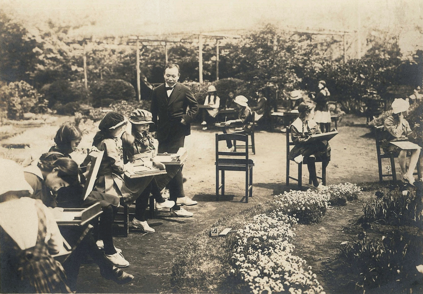 Photograph of Japanese artist and educator Kanae Yamamoto guiding a group of children sketching as part of the Children's Free Drawing movement